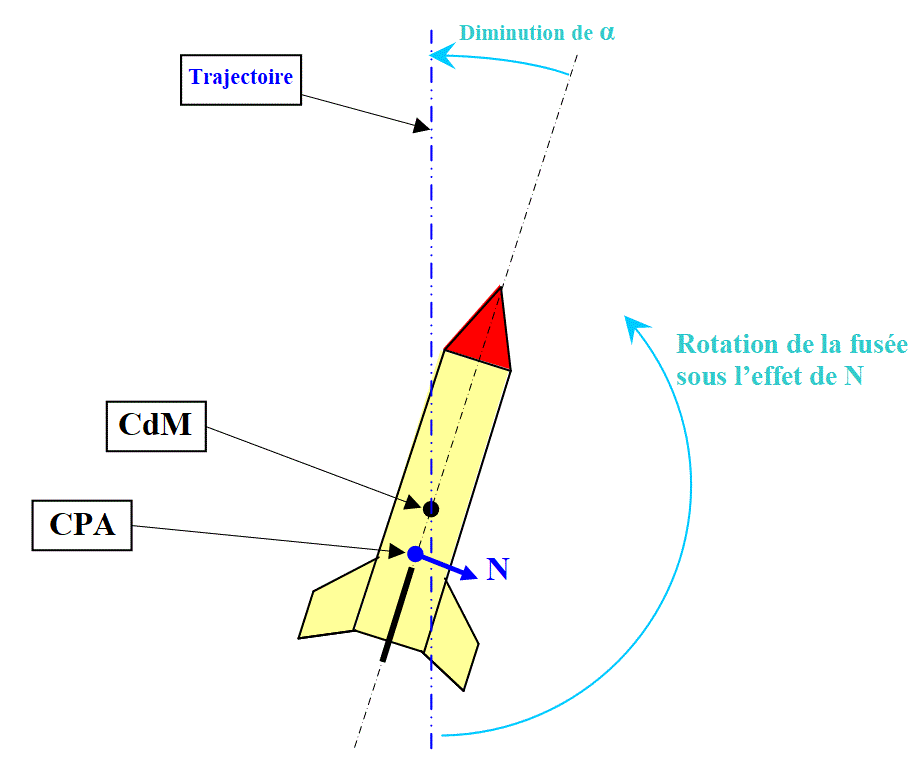 Rocket in angular lurch